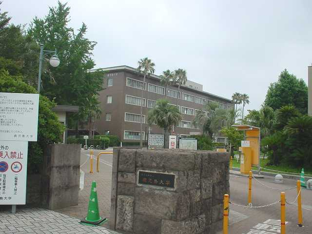 Kagoshima University (Kagoshima Daigaku), a national university located in Kagoshima, Kagoshima Prefecture, Japan.